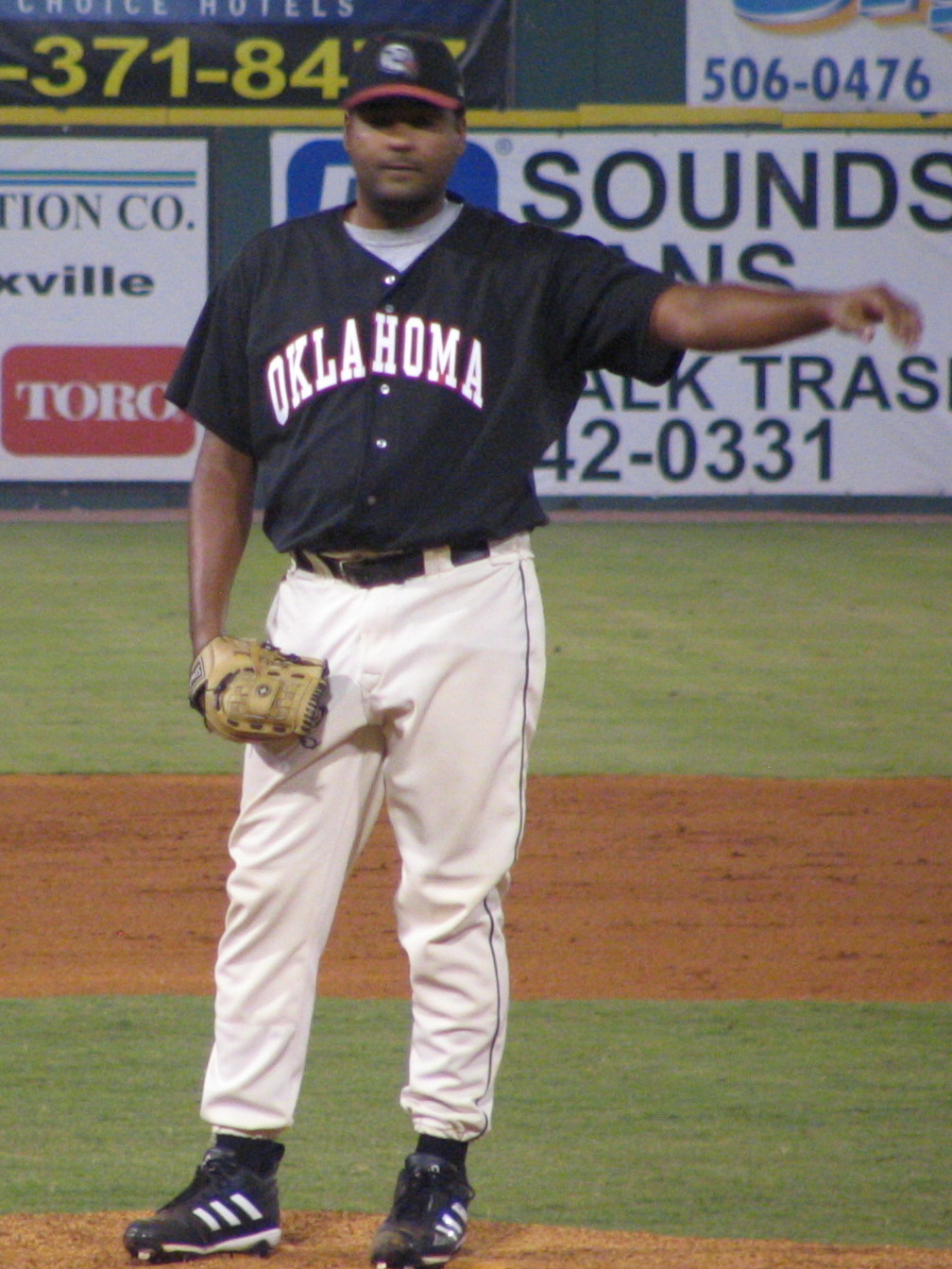 Hector Mercado of the Oklahoma RedHawks on the mound during a game against the Nashville Sounds in 2005